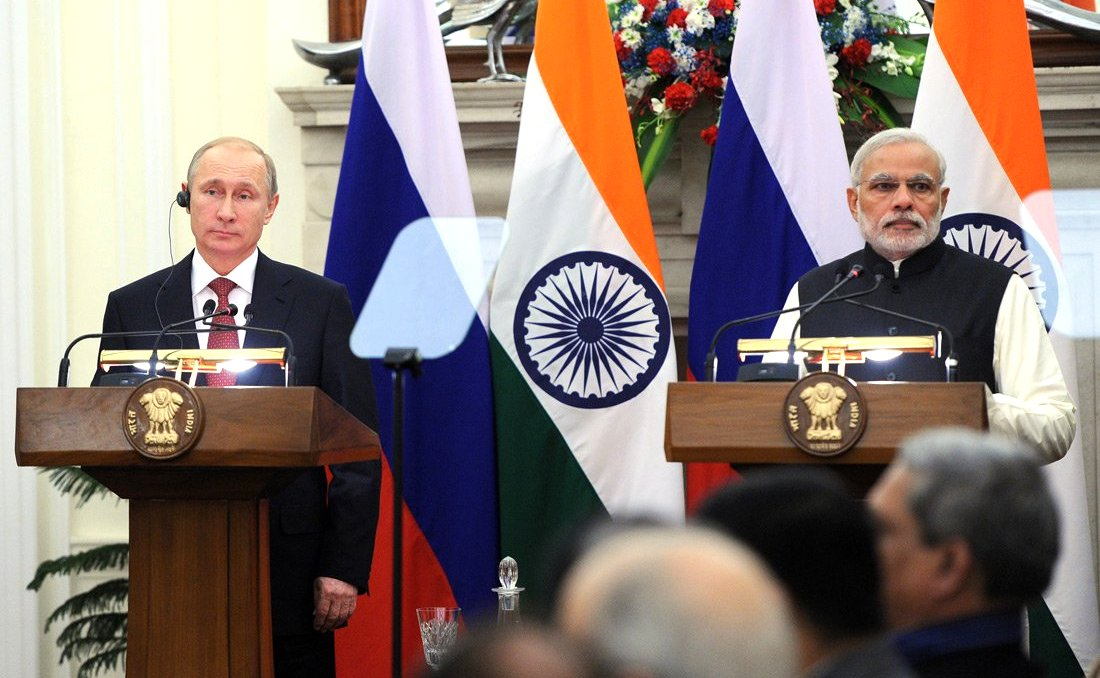 Press statement following Russian-Indian talks. With Prime Minister of India Narendra Modi.